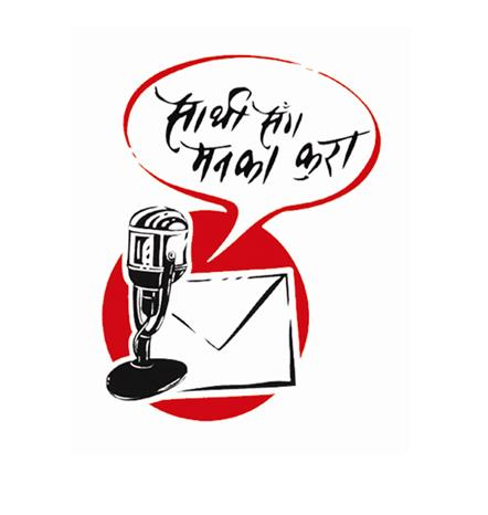 Saathi Sanga Mannka Kura- Equal Access Nepal Production